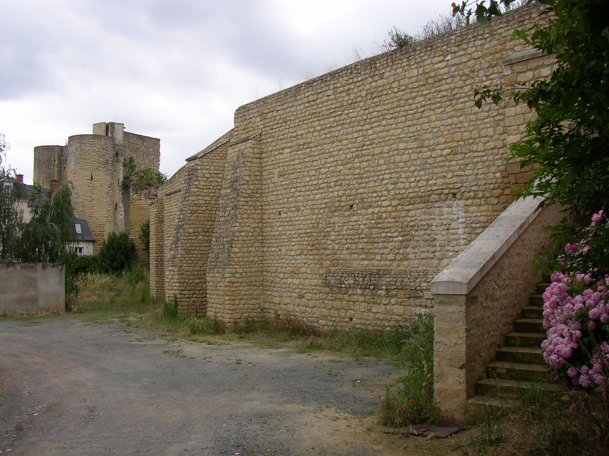 Remparts et Tour Porte au Prévost It is indexed in the Base Mérimée, a database of architectural heritage maintained by the French Ministry of Culture, under the references PA00101387 and PA00101388.